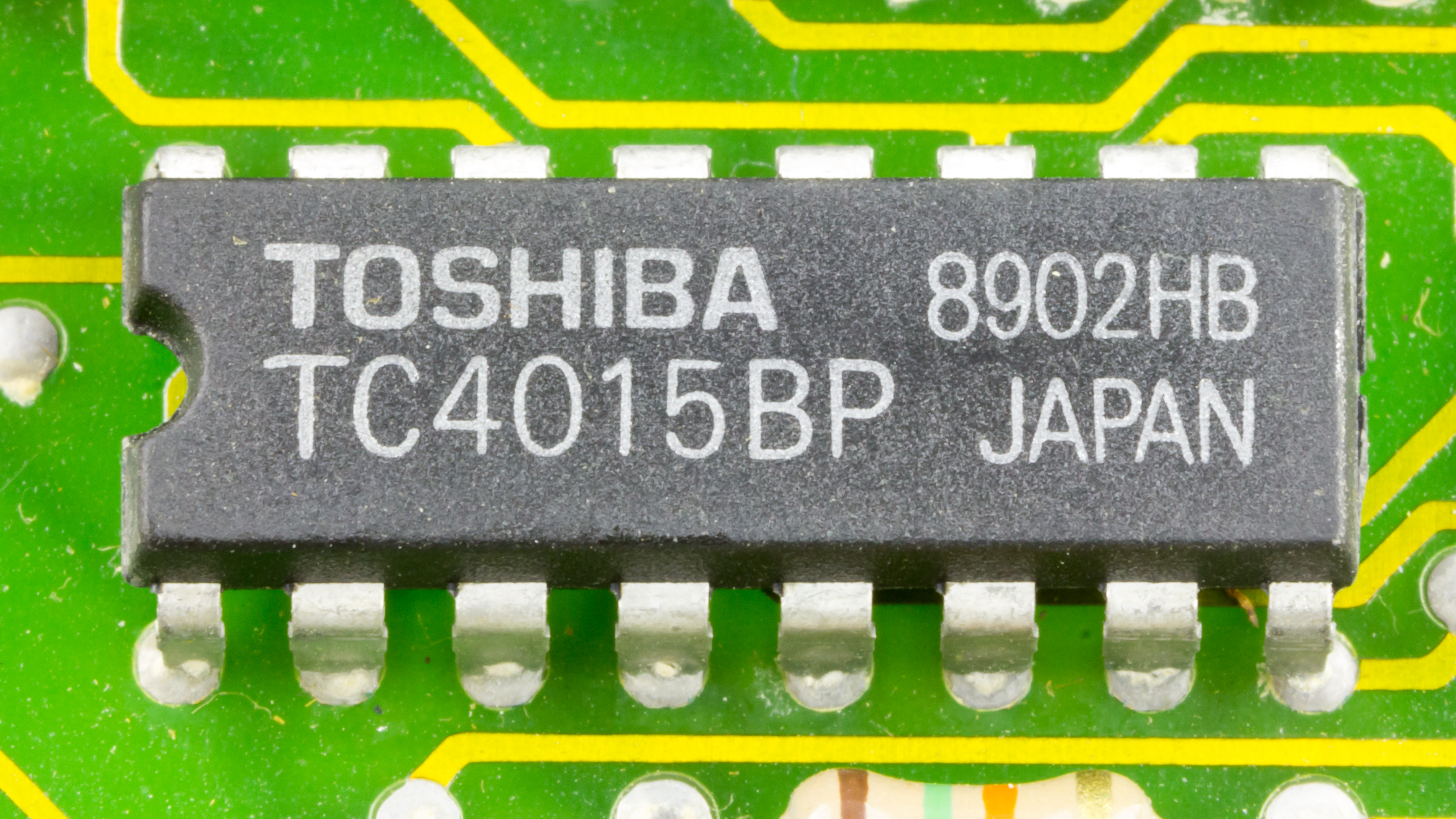 DOV-1X - Toshiba TC4015BP (Dual 4-Stage Static Shift Register (with serial input/parallel output) on printed circuit board. Package: DIP 16